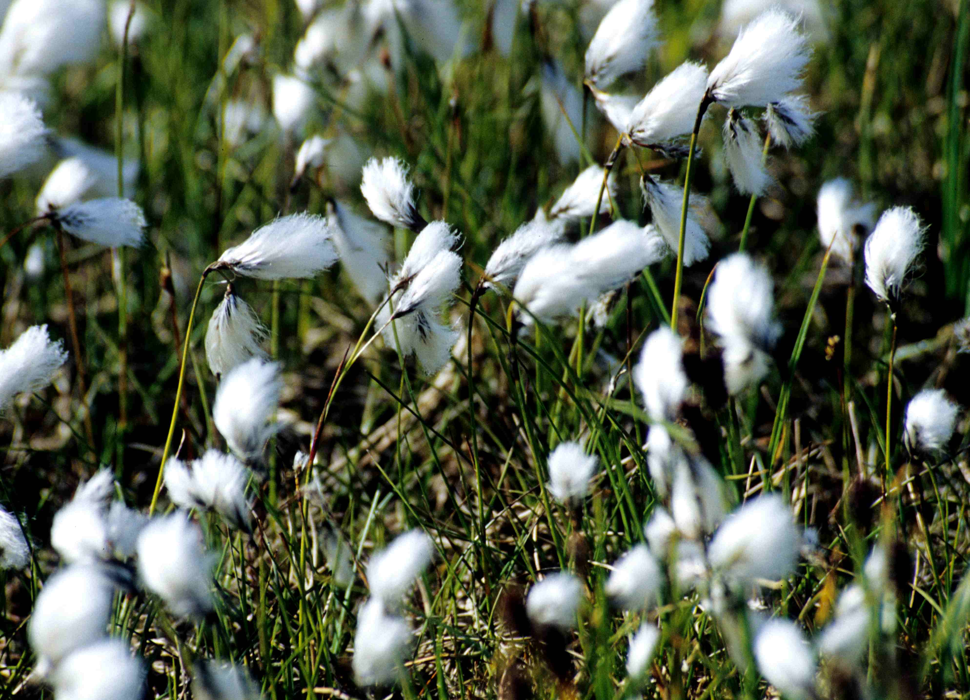 Arctic cotton, Eriophorum angustifolium (Sirmilik National Park)